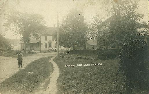 Bow Lake Village, Strafford, NH; from an old postcard.